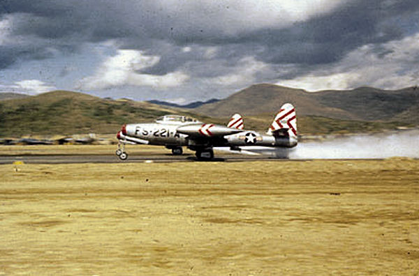 USAF F-84Gs taking off during the Korean War.